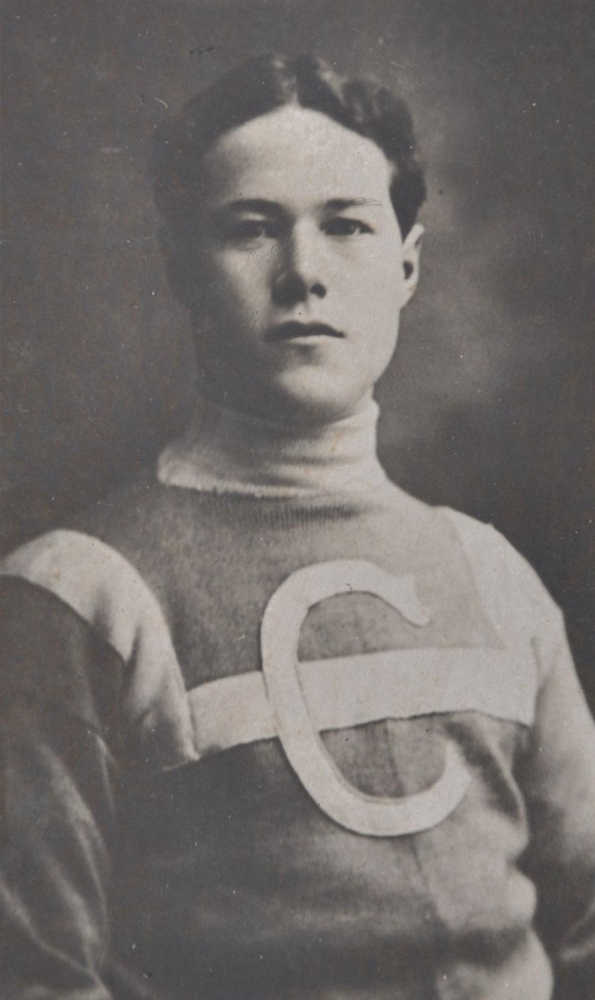 Canadian ice hockey player Skinner Poulin of the Montreal Canadiens in the 1910 NHA season.